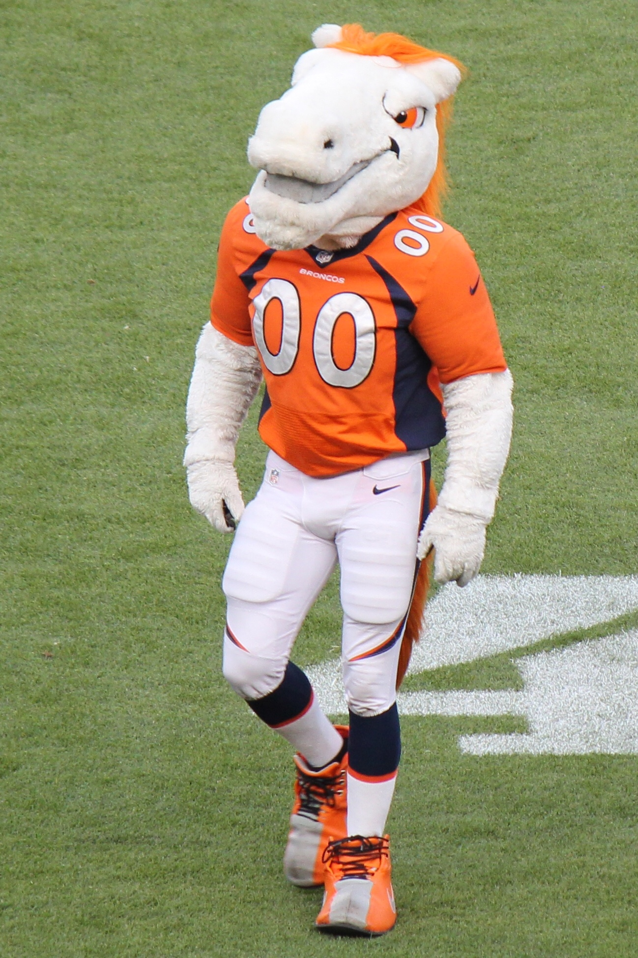 Miles, the mascot of the Denver Broncos